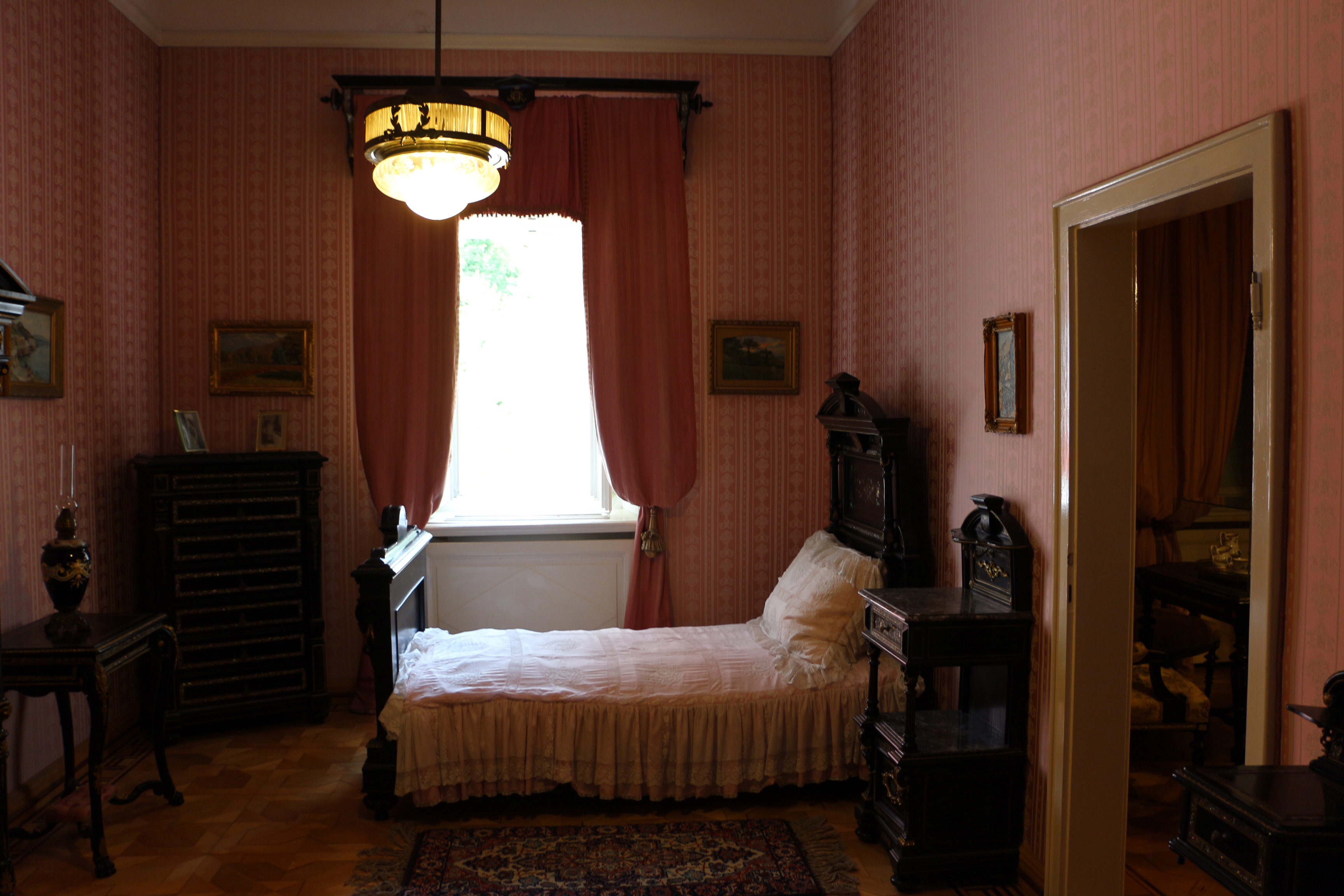 King Nikola's Palace in Cetinje